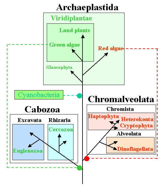 Kupirijo This is needed to explain the lineage of algae. Inspired by Figure 2 in article with PMID 12457707